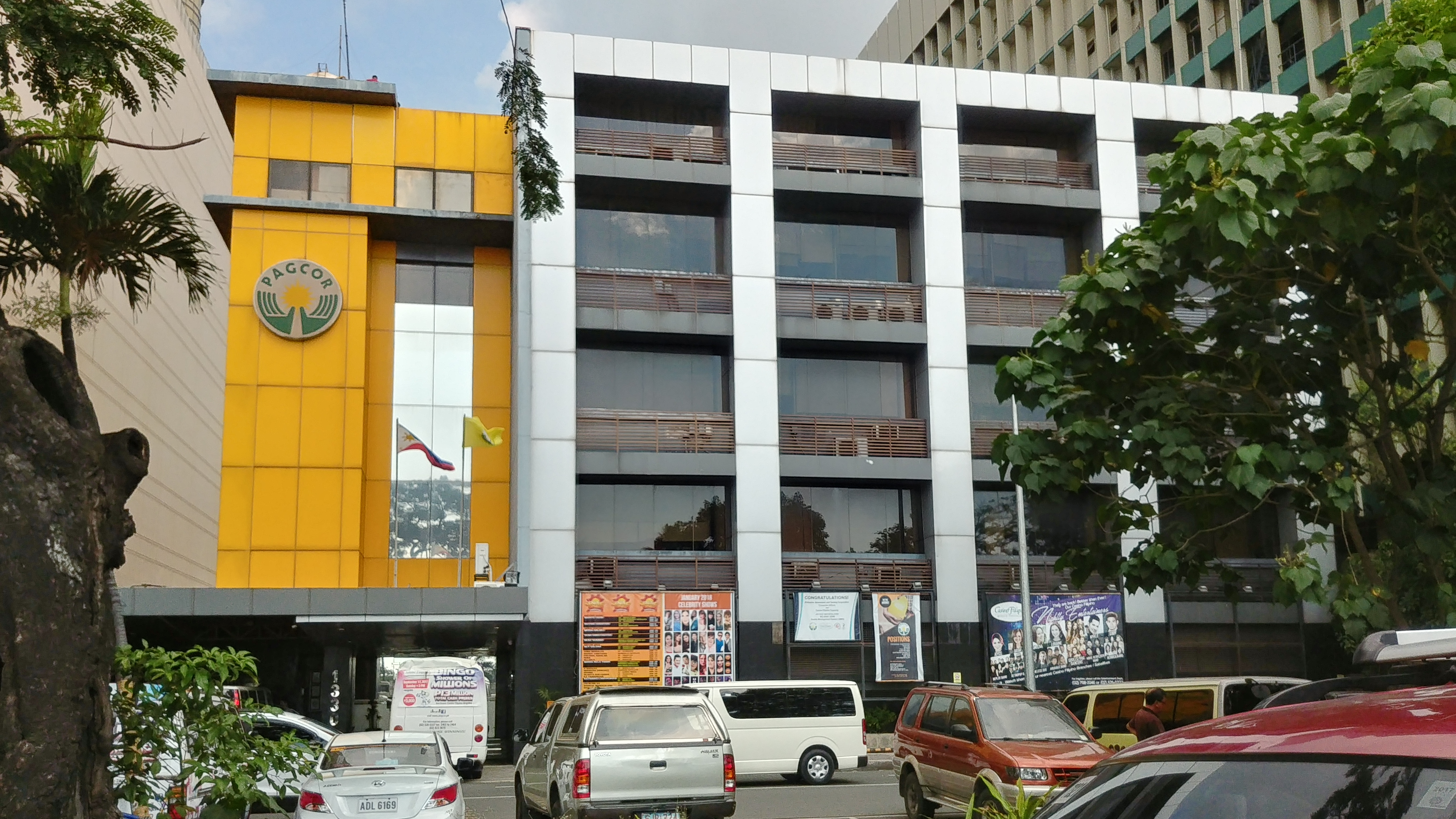 The headquarters of the Philippine Amusement and Gaming Corporation along Roxas Boulevard, Ermita, Manila.